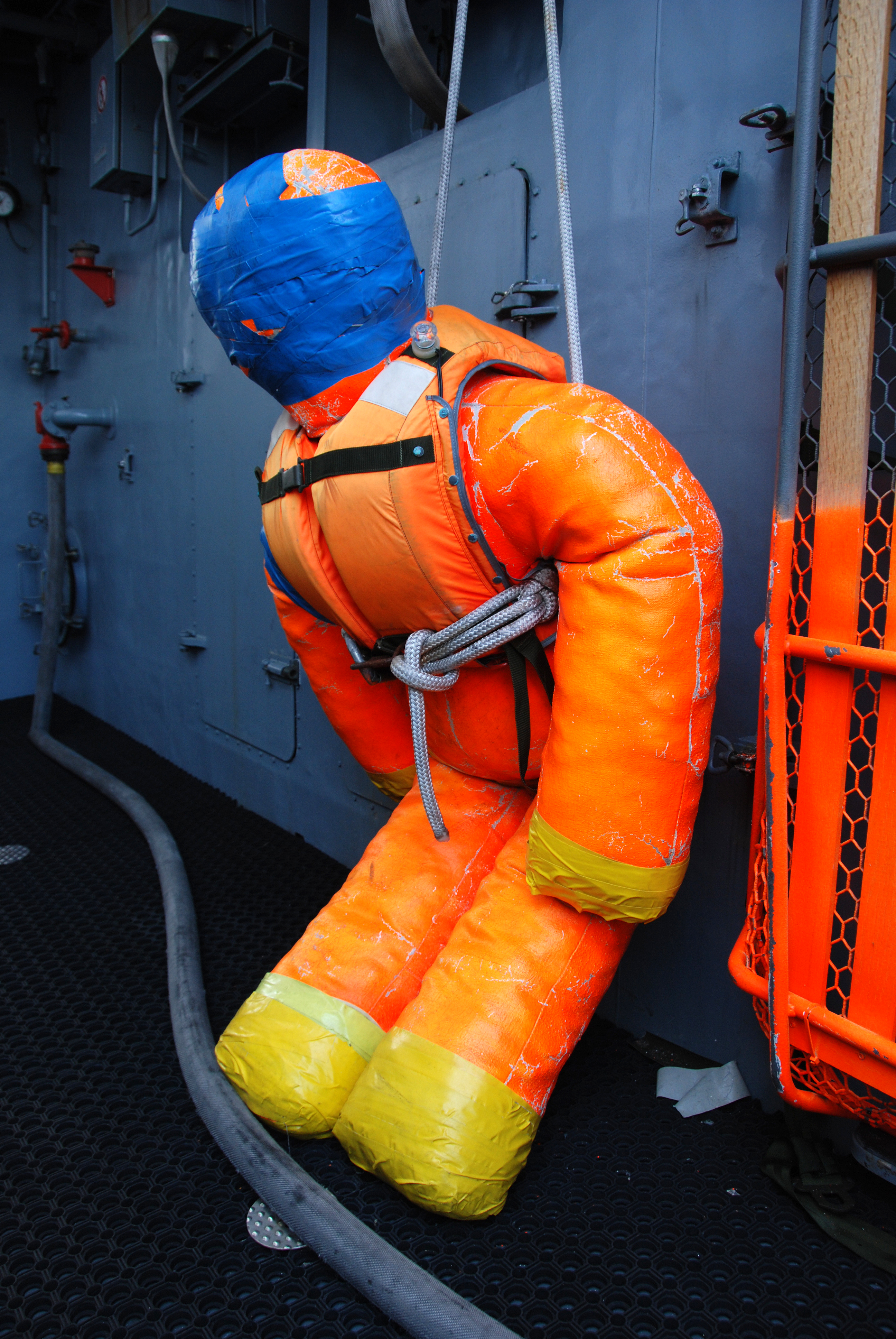 A floating dummy used for man over board training, commonly referred to as Oscar. Camera data Camera Nikon D80 Lens Nikkor AF-S DX VR 18-200mm 3.5-5.6G IF-ED Focal length 18 mm Aperture f/5.6 Exposure time 1/125 s Sensivity ISO 200